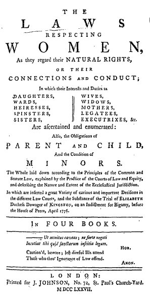 Title page form Laws Respecting Women